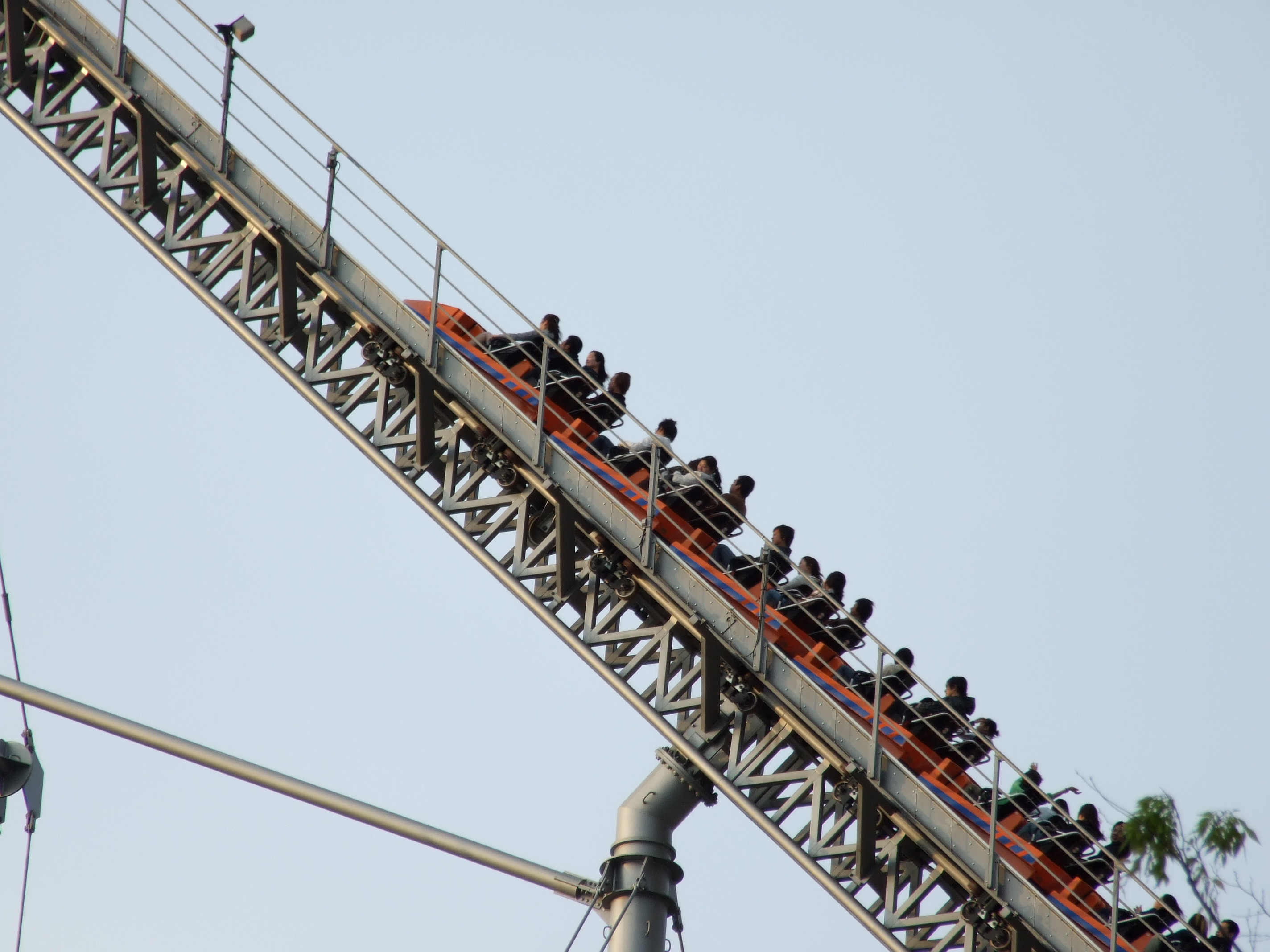 Picture of an ascending train on Thunder Dolphin's track. The train in picture is the orange one. The other train of Thunder Dolphin is painted yellow.